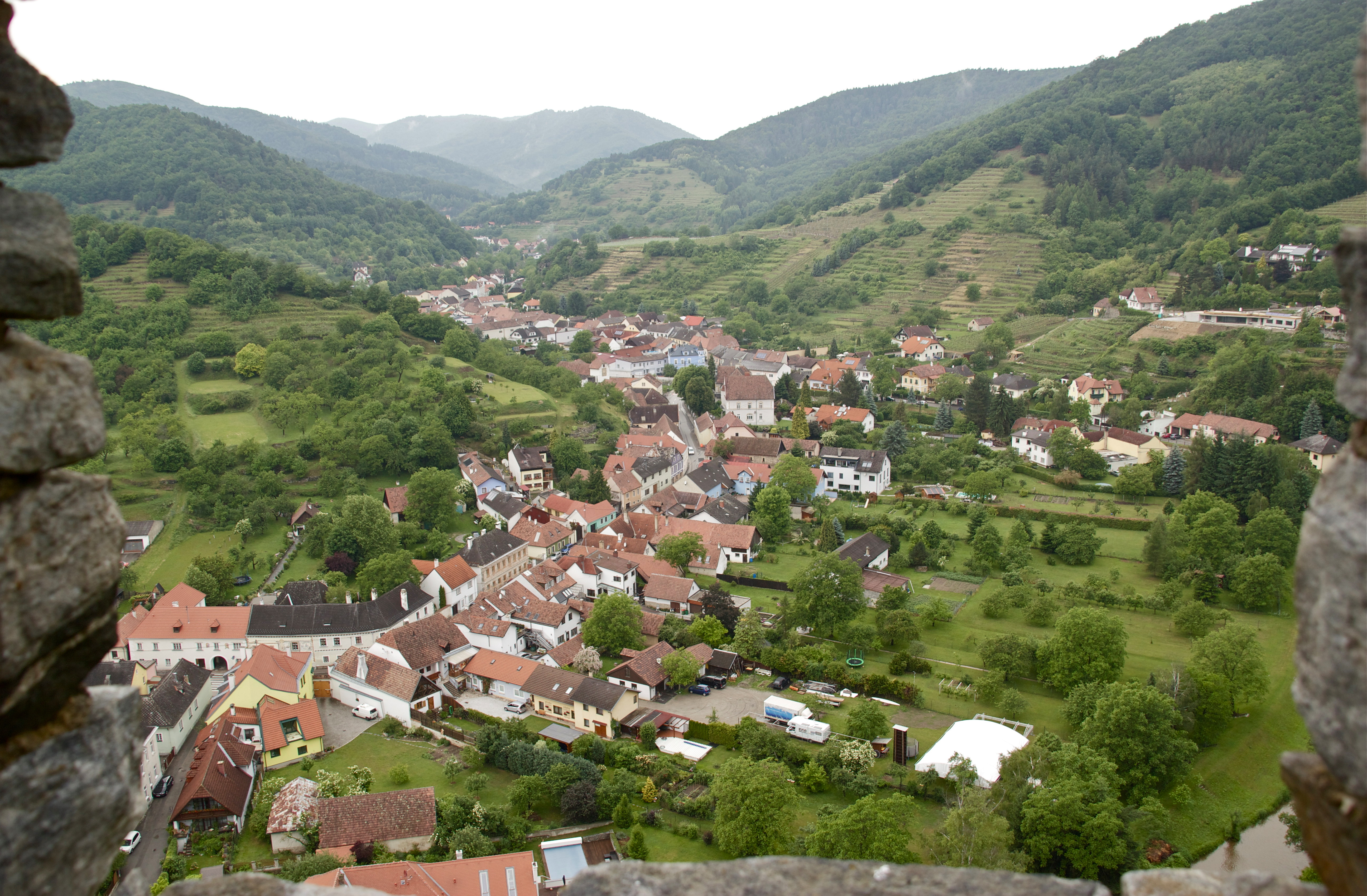 View of Senftenberg (Austria) from the castle ruin